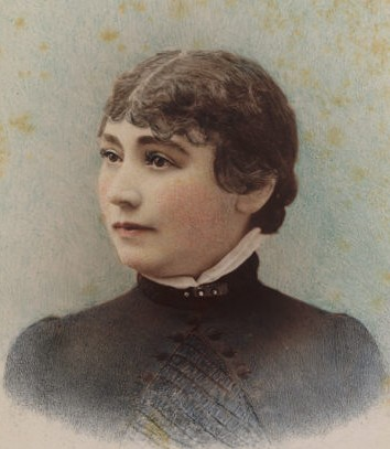 Hand-tinted ambrotype of Sarah Winchester taken in 1865 by the Taber Photographic Company of San Francisco